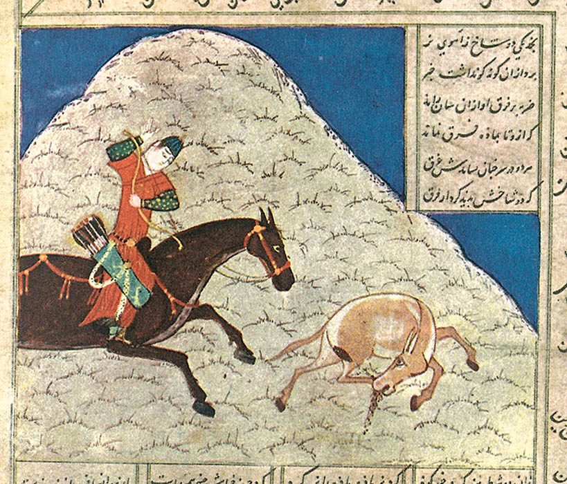 "Bahram Gur shoots wild ass" around 1420, polychrome painting on a very thin, carefully smoothed yellowish-white paper (the so-called Samarkand paper), the ink pattern 23.6 x15, 7 cm; Shiraz; Prince Bájsonghura; calligrapher: Mahmud al-Hossein; Islamic Museum, Berlin, Germany. Miniature text illustrates Eight Paradises (Hasth-Bihisht), written by Amir Khosrou Dihlaví (1253-1325)